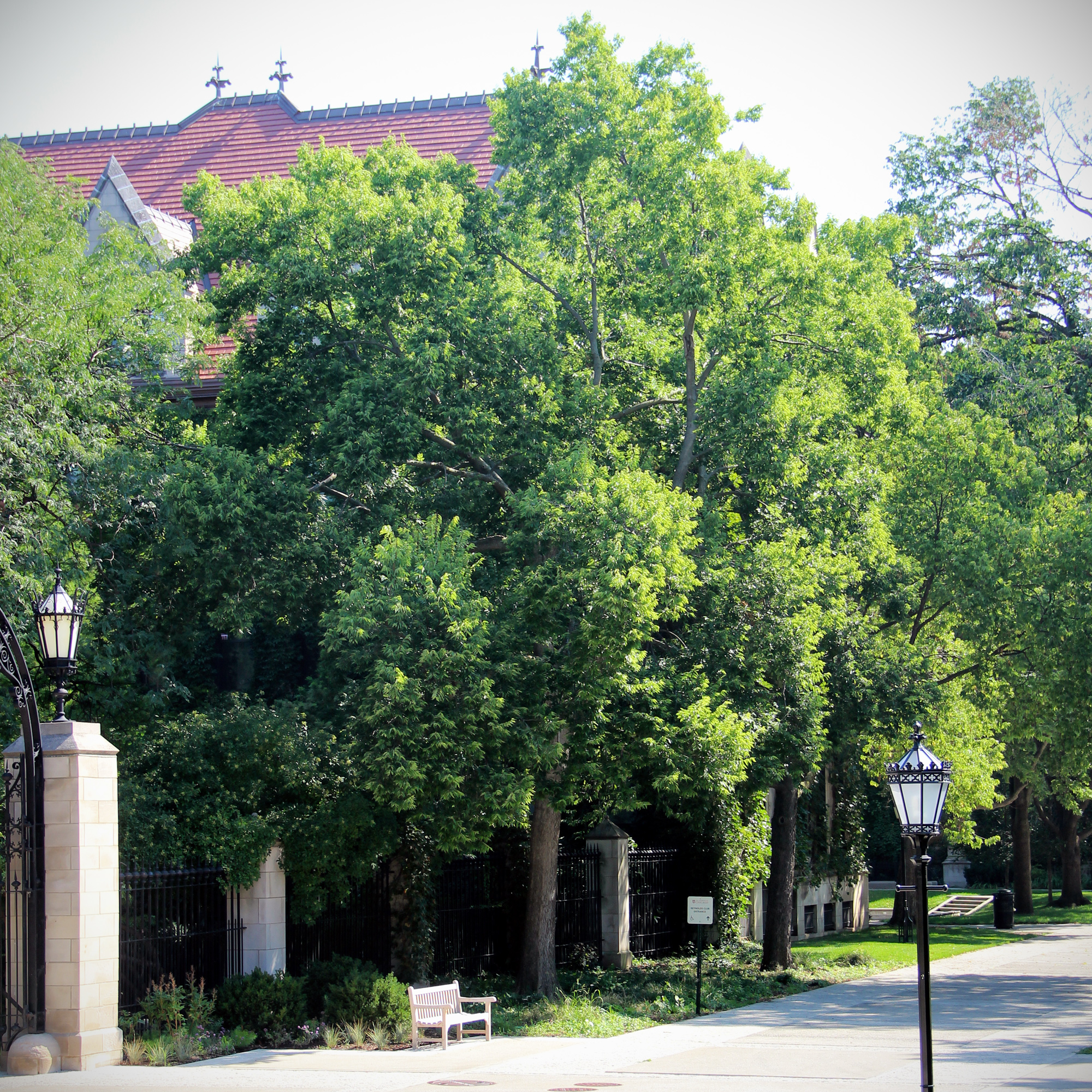 Hackberry on the campus of the University of Chicago.